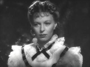 Cropped screenshot of Margaret Sullavan from the trailer for the film The Shining Hour